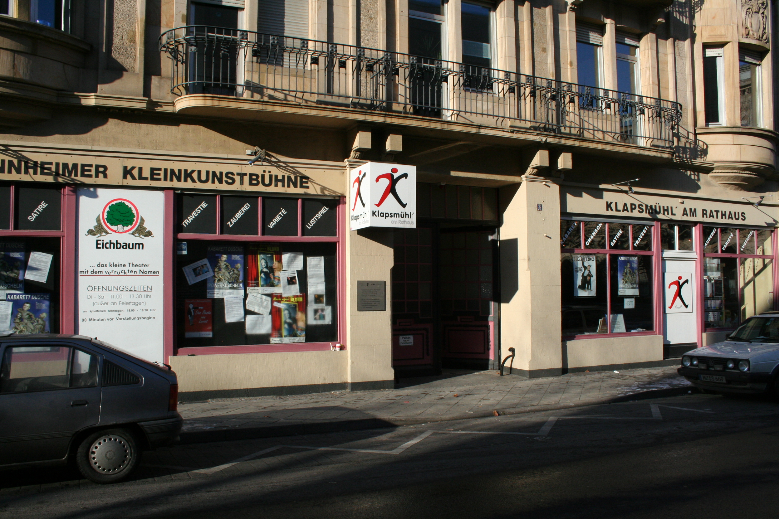 Small art theatre at Mannheim, Germany